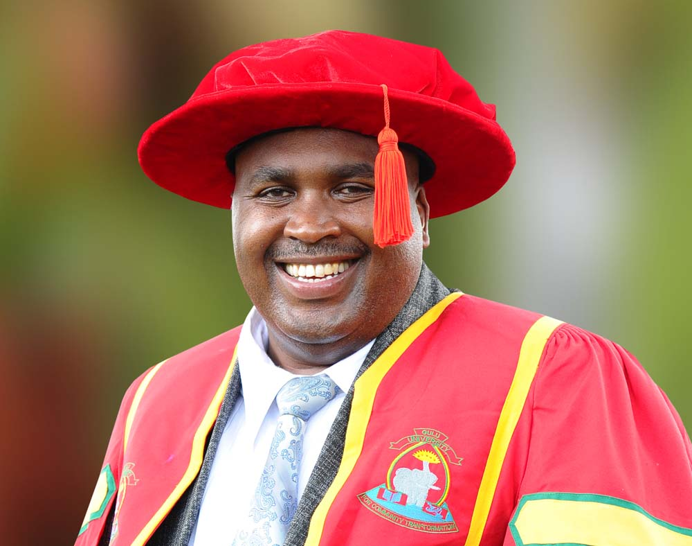 Potrait